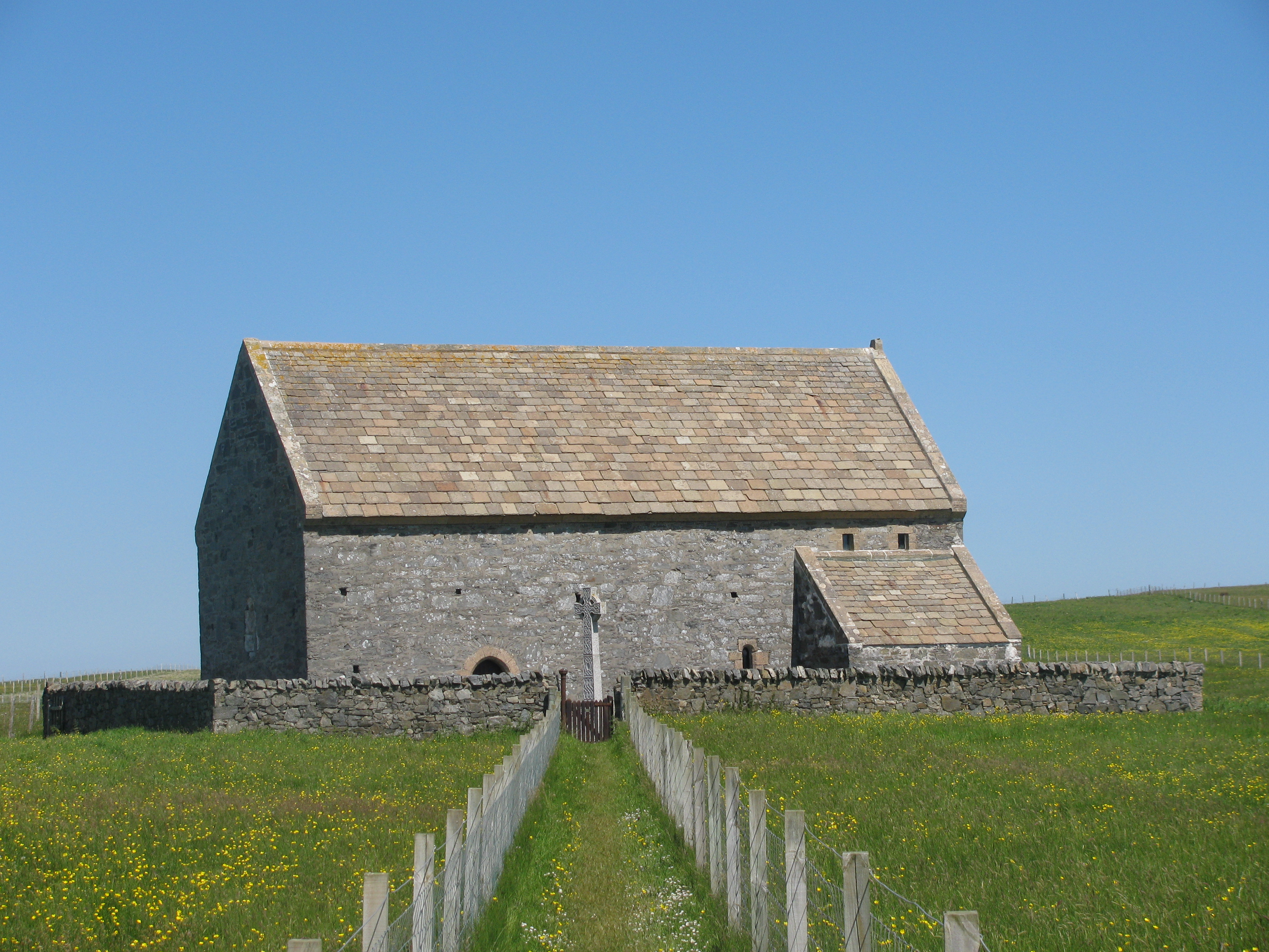 The Teampull Mholuaidh or St Moluag's church at Eoropie, Isle of Lewis, Scotland